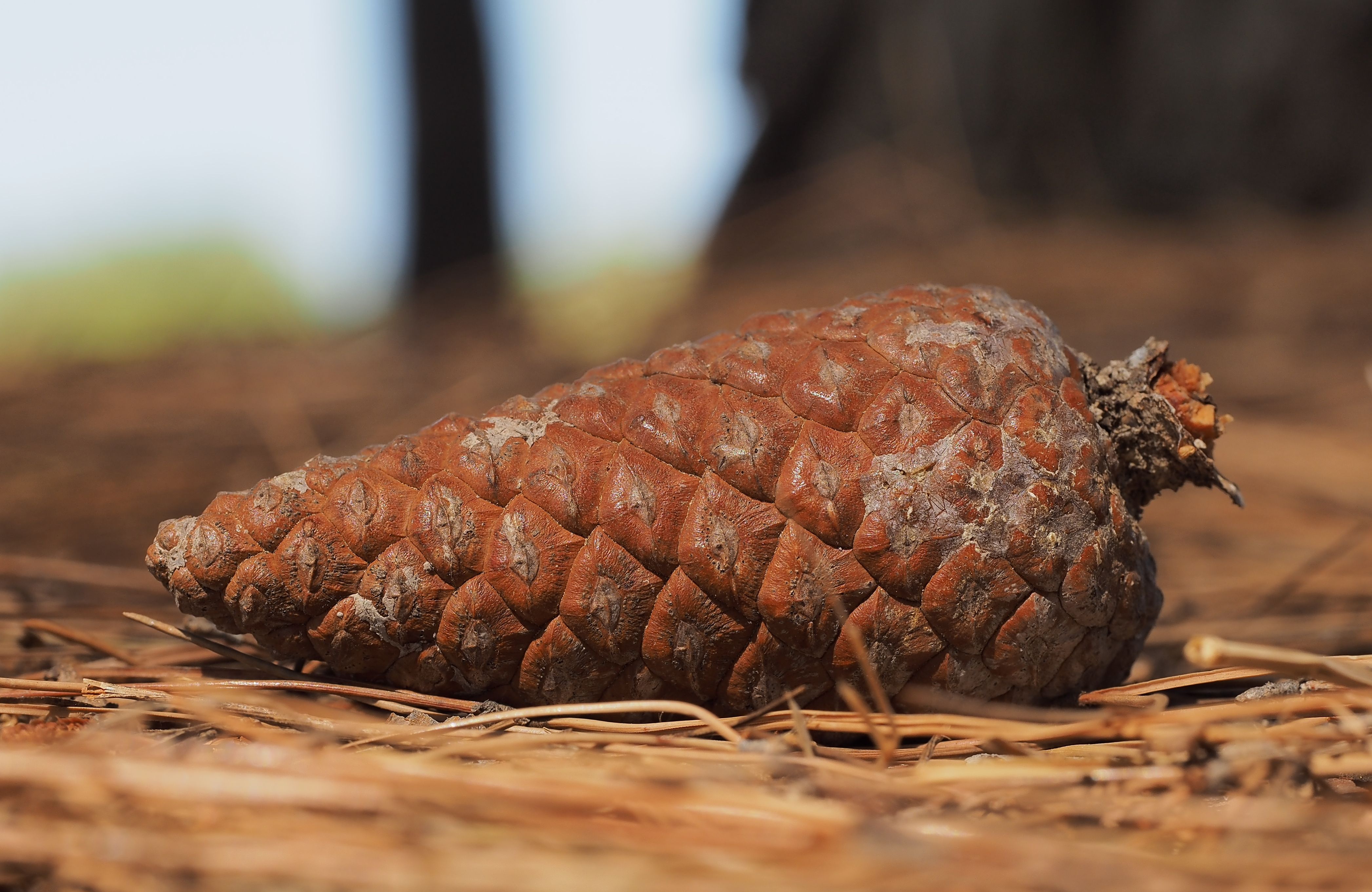 A pine cone (around 10 cm long) in the edge of pine tree forest. Istria, Croatia.